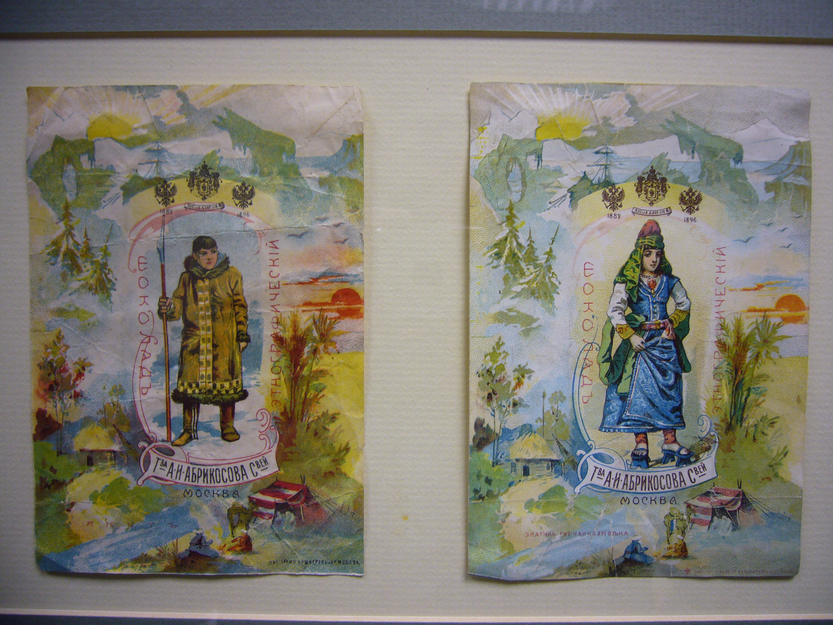 'Ethographic' chocolates manufactured by Abrikosov's factory in Moscow, Russia (late 19th - early 20th cent.)